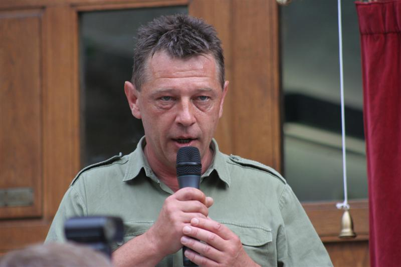 Andy Kershaw at the unveiling of a Blue Plaque for The Who at the University of Leeds, 17 June 2006